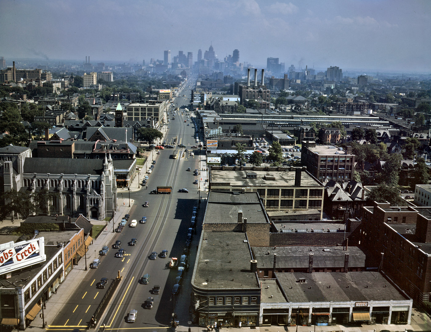 Looking south down Woodward Avenue (then US 10, now M-1) from the Maccabees Building with the Detroit, Michigan, skyline in the distance.